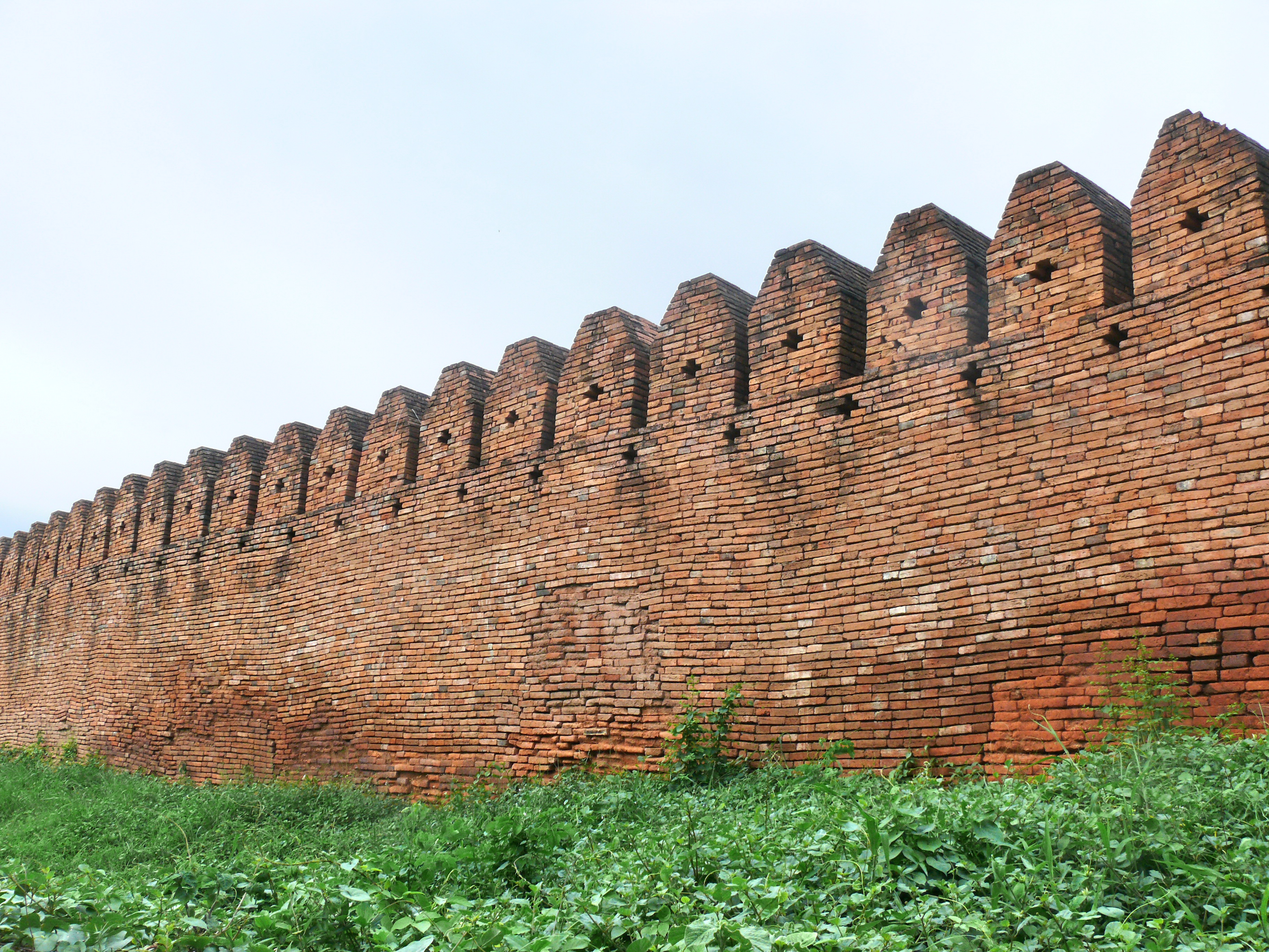 Old Wall, Nan.